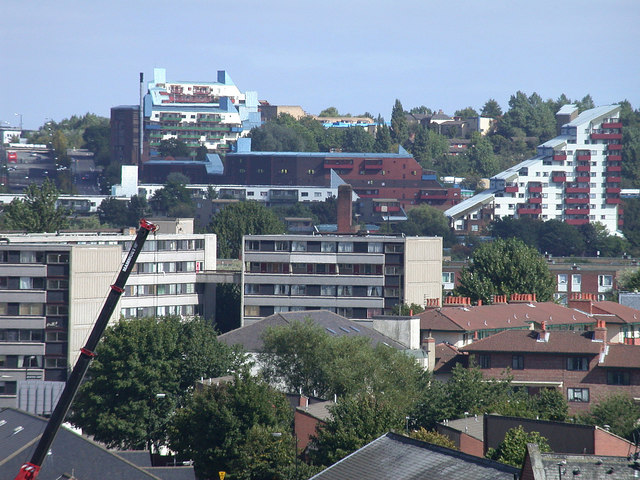 Byker Wall and Tom Collins House Long range view from the Metro at Manors